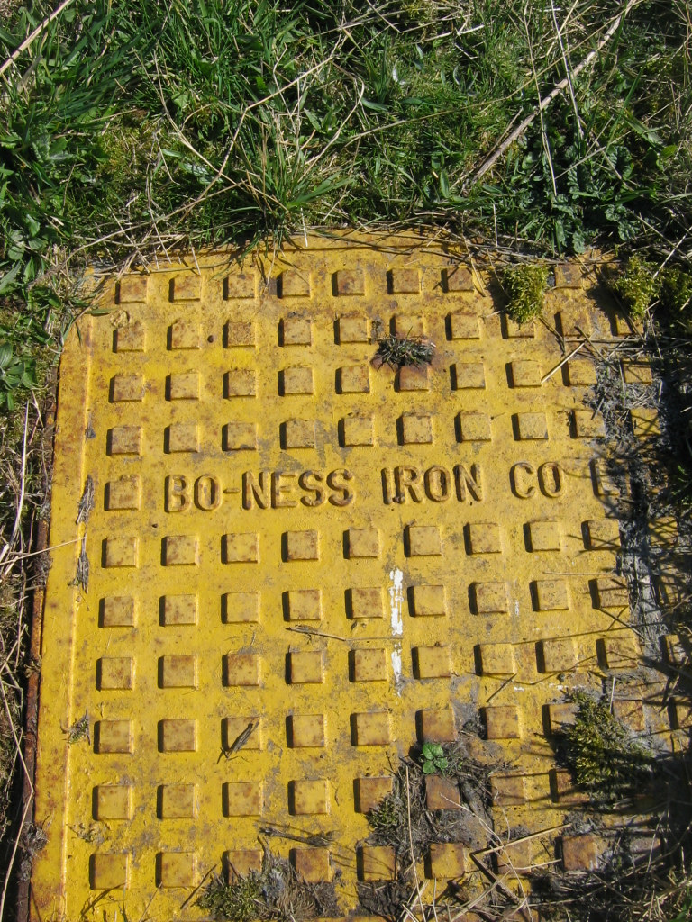 Bo'ness Iron Works drain cover